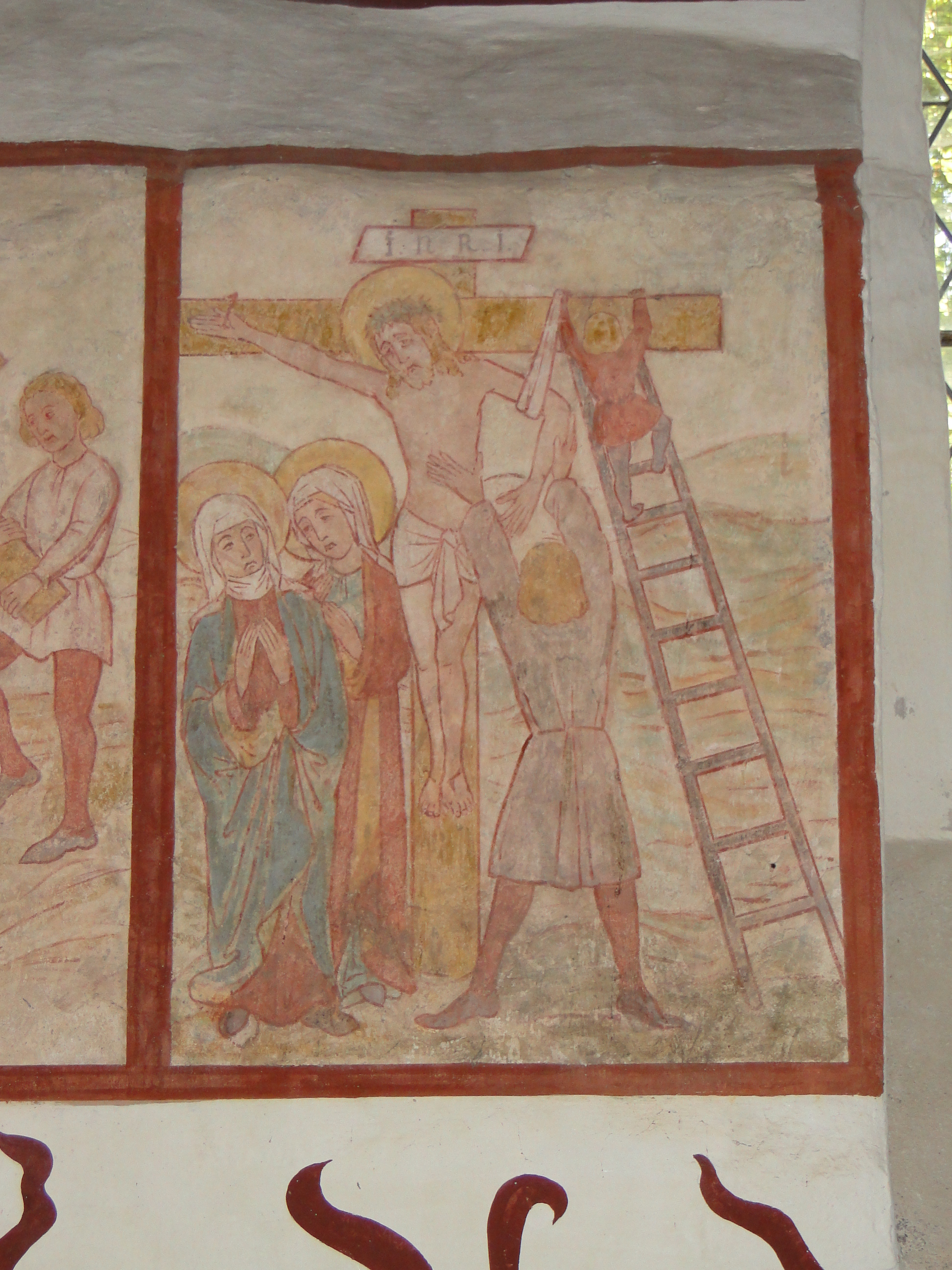 Fresco in the church in Below, district Ludwigslust-Parchim, Mecklenburg-Vorpommern, Germany